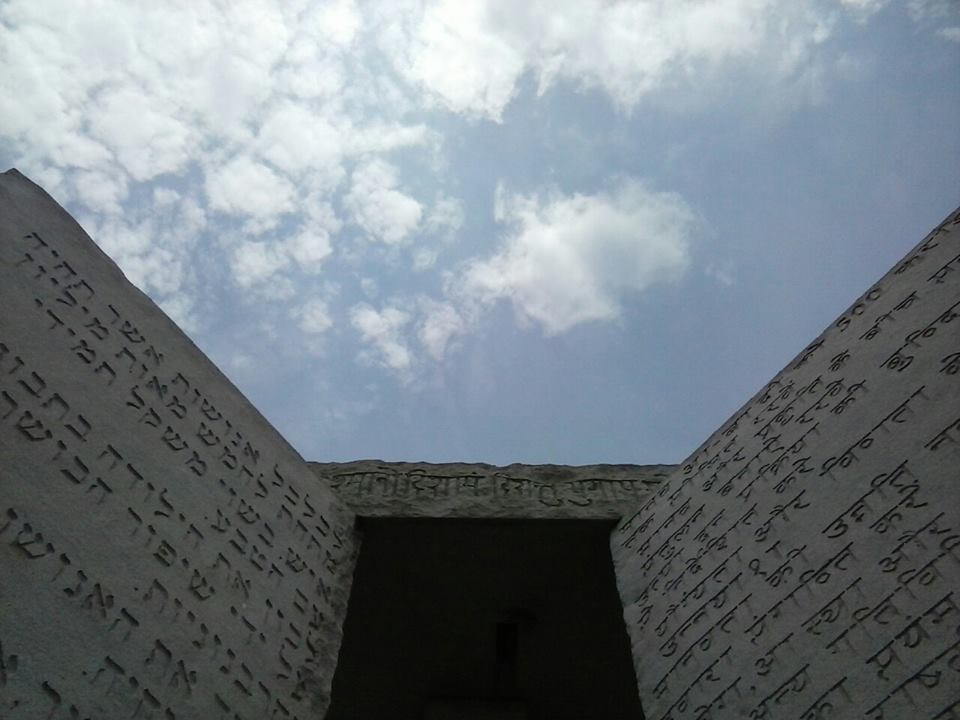 Georgia Guidestones